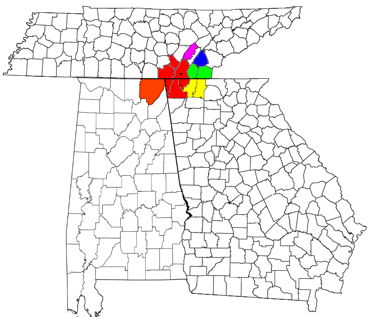 Map of Chattanooga-Cleveland-Dalton, TN-GA-AL Combined Statistical Area (CSA): Dot: City of Chattanooga, TN Red: Chattanooga, TN-GA MSA Light Green: Cleveland, TN MSA Yellow: Dalton, GA MSA Blue: Athens, TN μSA Light Purple: Dayton, TN μSA Orange: Scottsboro, AL μSA